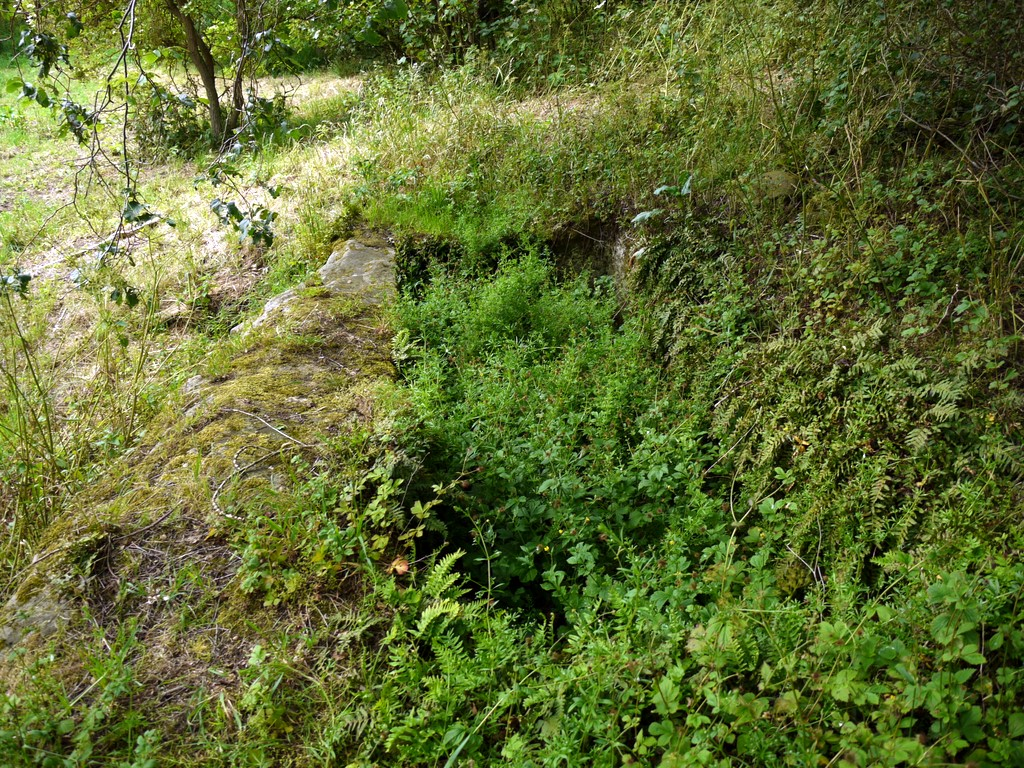 The 'Giant's Grave' - a Roman cistern near Rudchester